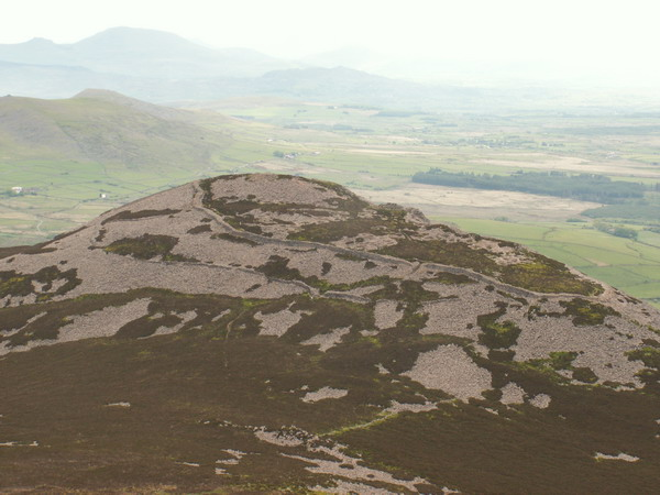 Tre'r Ceiri From Yr Eifl. showing Iron Age fort layout